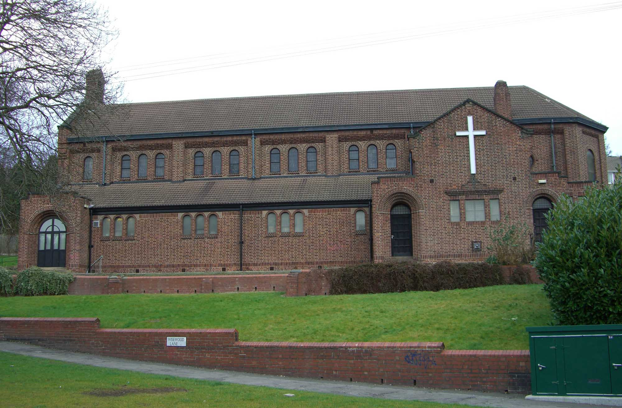 St Polycarp's parish church, at the junction of Wisewood Lane and Loxley Road, Malin Bridge, Sheffield, South Yorkshire, seen from the south